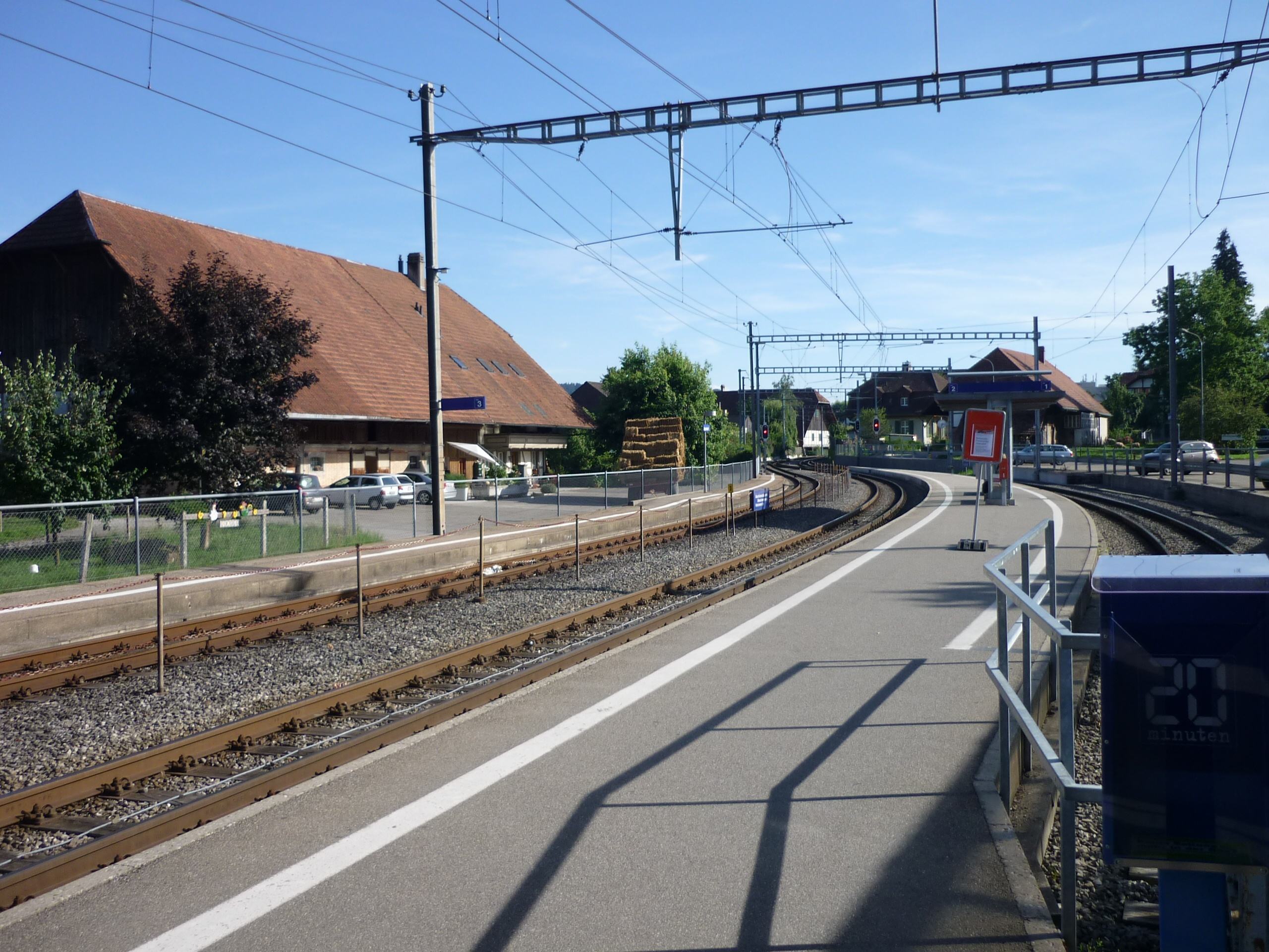 RBS train station of Jegenstorf, canton of Bern, Switzerland.